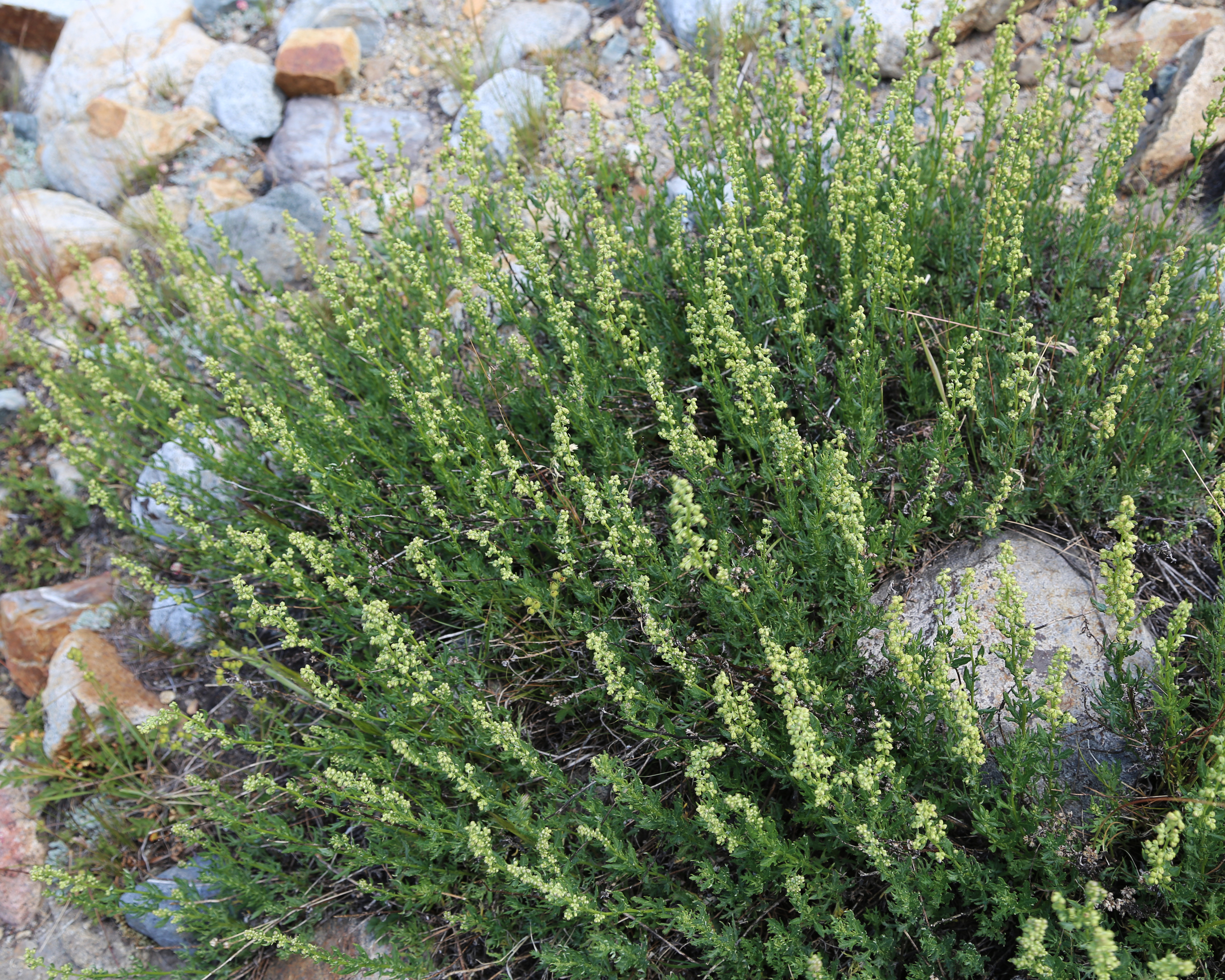 Western mugwort (Artemisia ludoviciana) plant. At 3,320 m (10,890 ft) in side-valley leading north from Glacier Canyon up to Dana Plateau, Ansel Adams Wilderness, Sierra Nevada mountains, California USA.